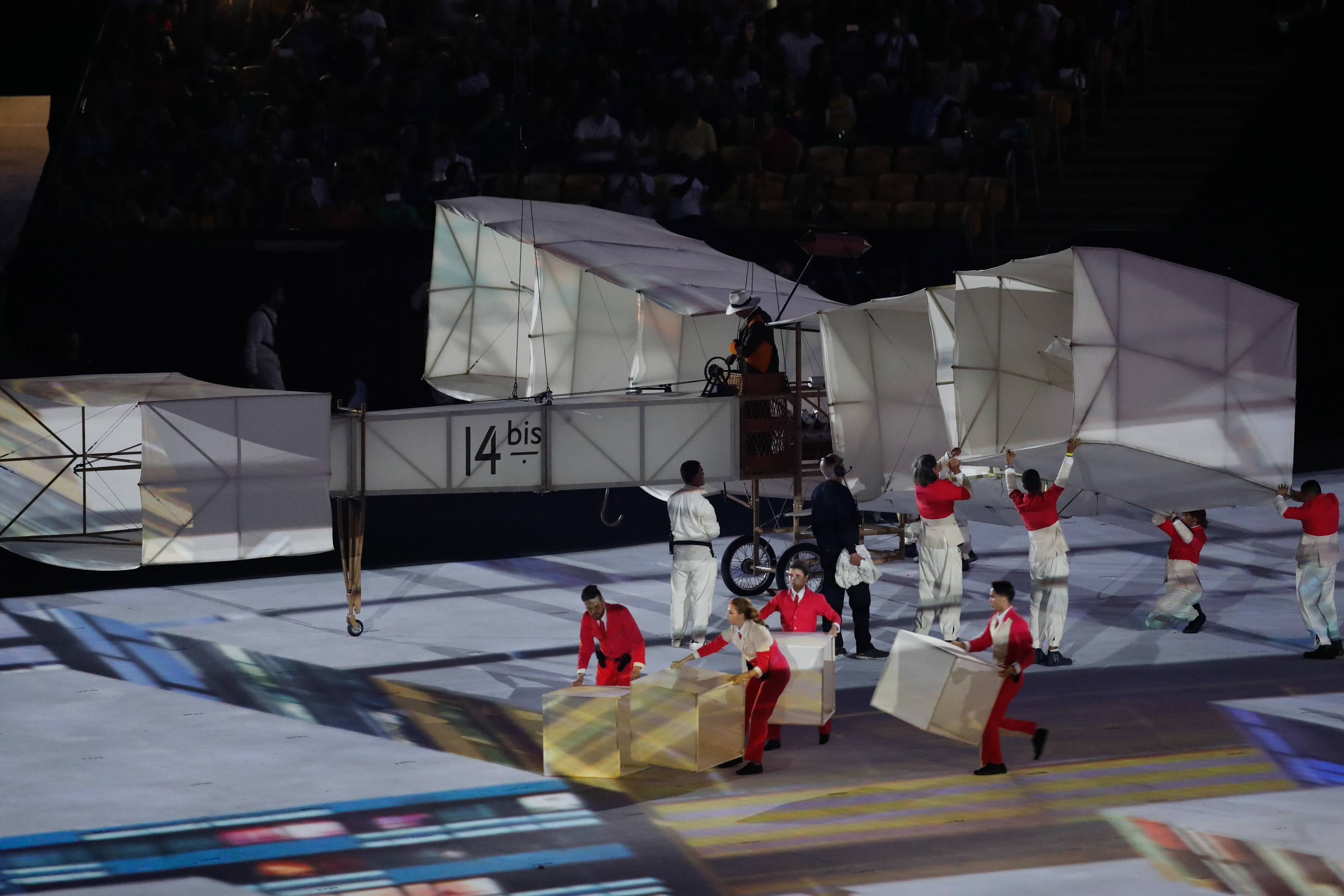 Rio de Janeiro - Cerimônia de abertura dos Jogos Olímpicos Rio 2016 no Estádio do Maracanã. (Fernando Frazão/Agência Brasil)